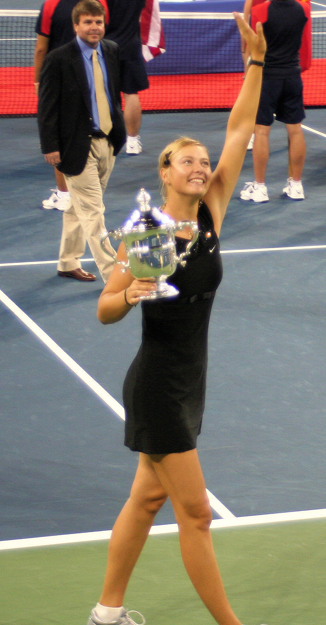 Maria Sharapova with her trophy after winning the 2006 U.S. Open on 9 September, 2006.